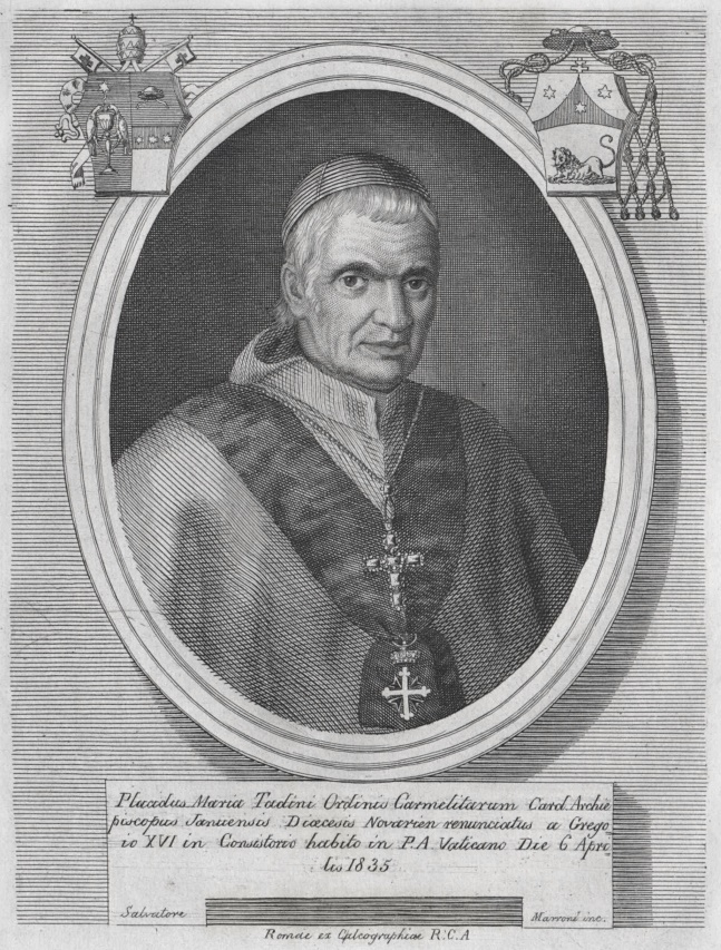 Kardinal Placido Maria Tadini OCD (1759-1847)